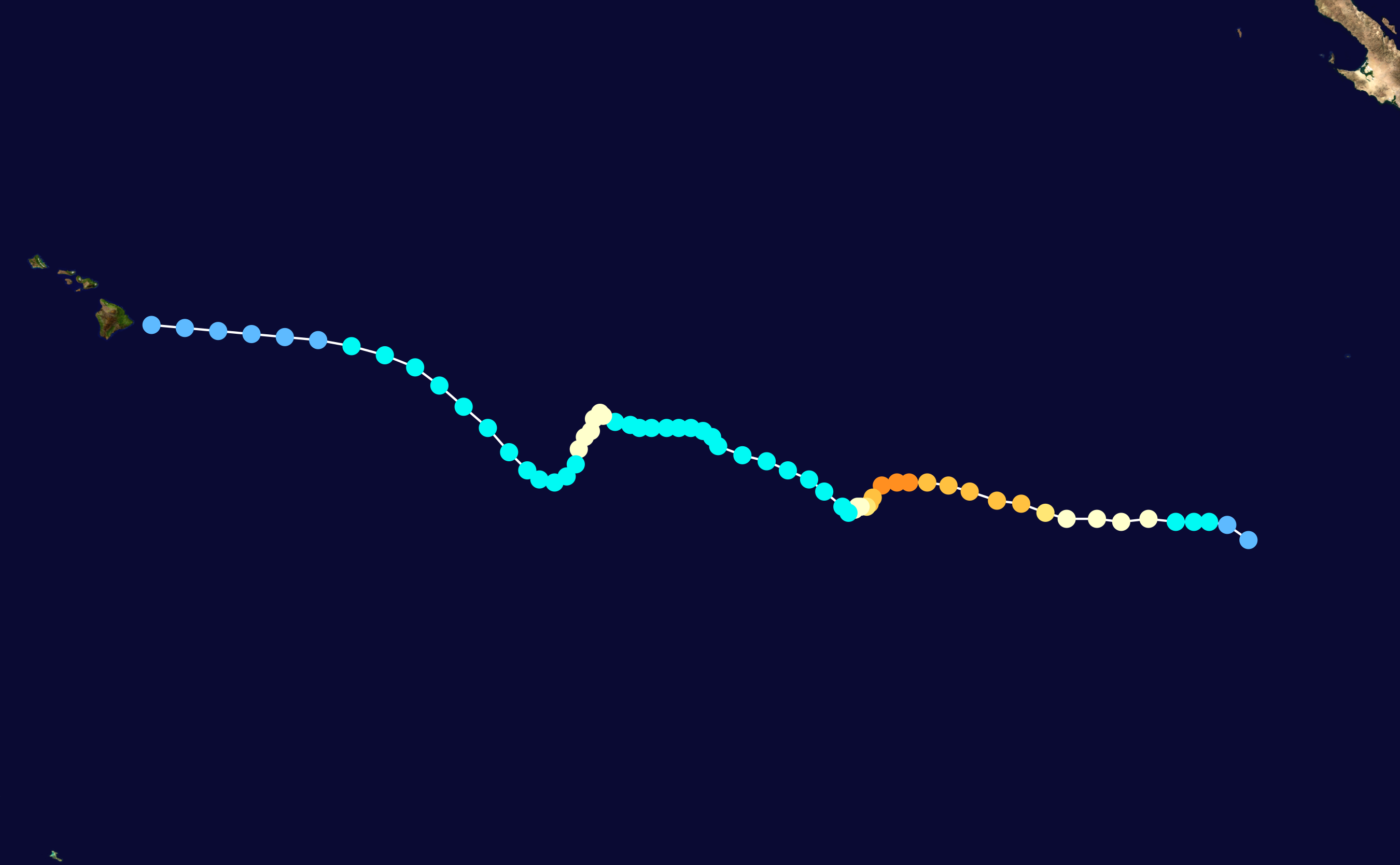 Hurricane Kenneth (2005) track. Uses the color scheme from the Saffir-Simpson Hurricane Scale.